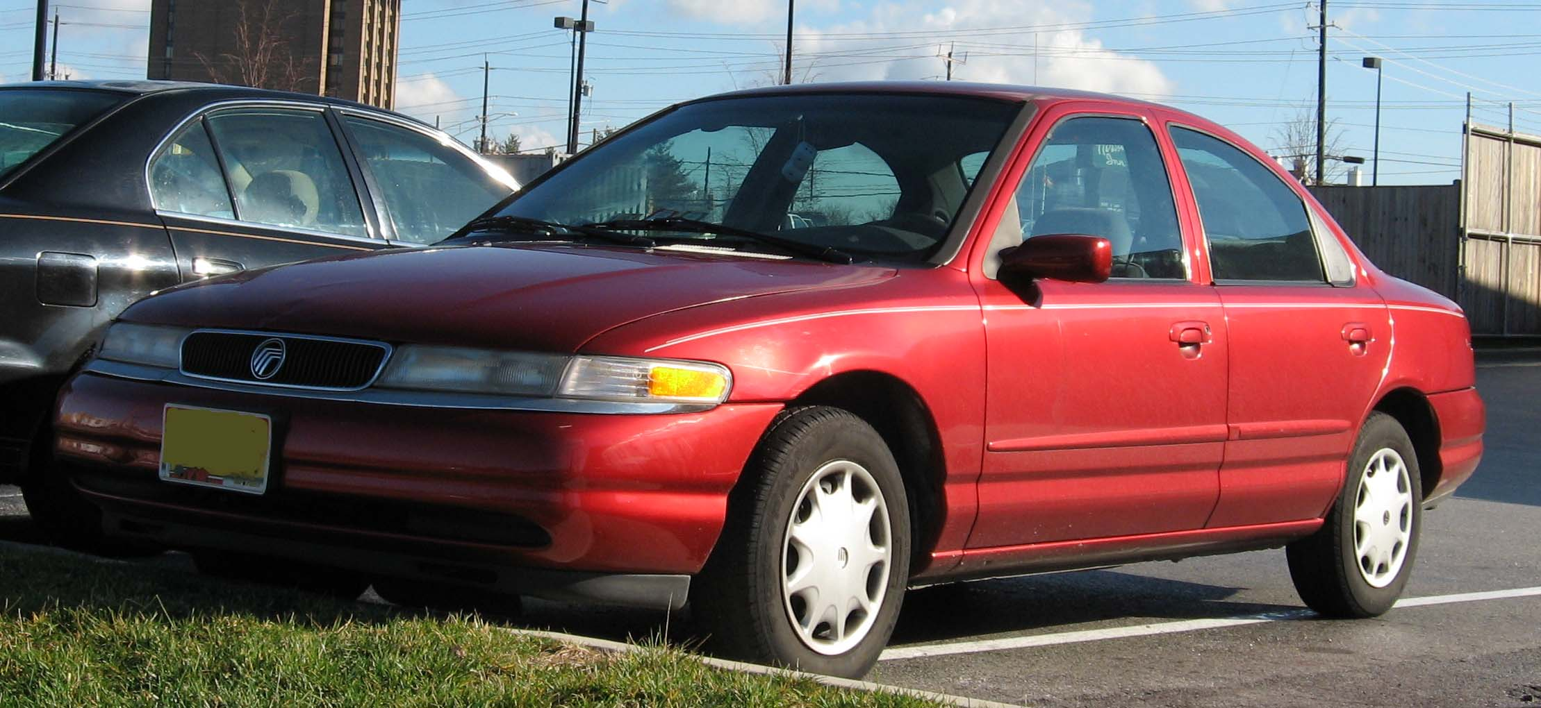 1995-1997 Mercury Mystique photographed in USA.